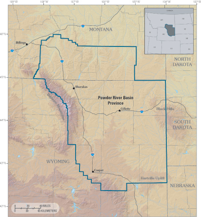 Powder River Basin Province of northeastern Wyoming and southeastern Montana.